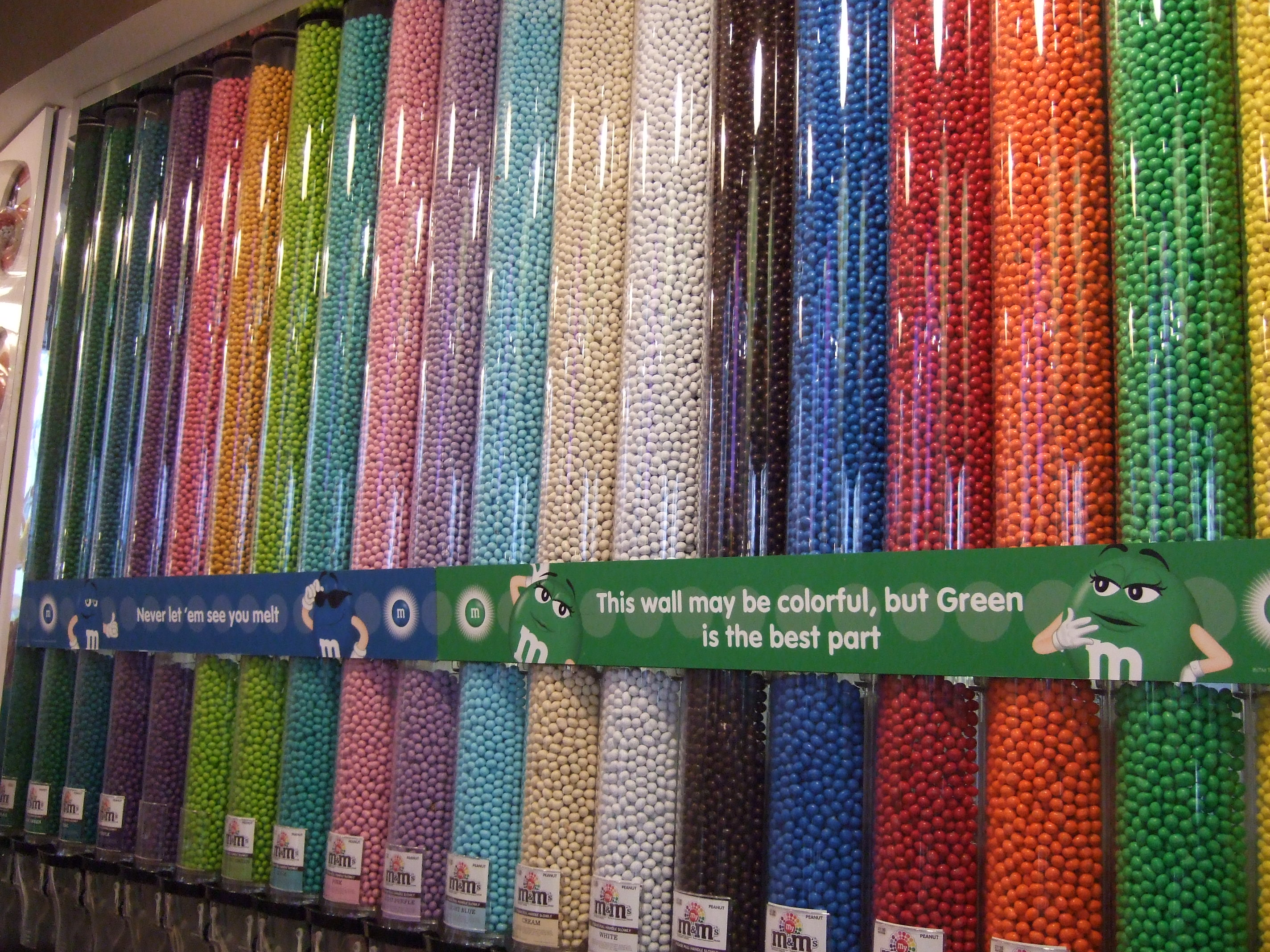 M&M's World New York City - M&M's color wall